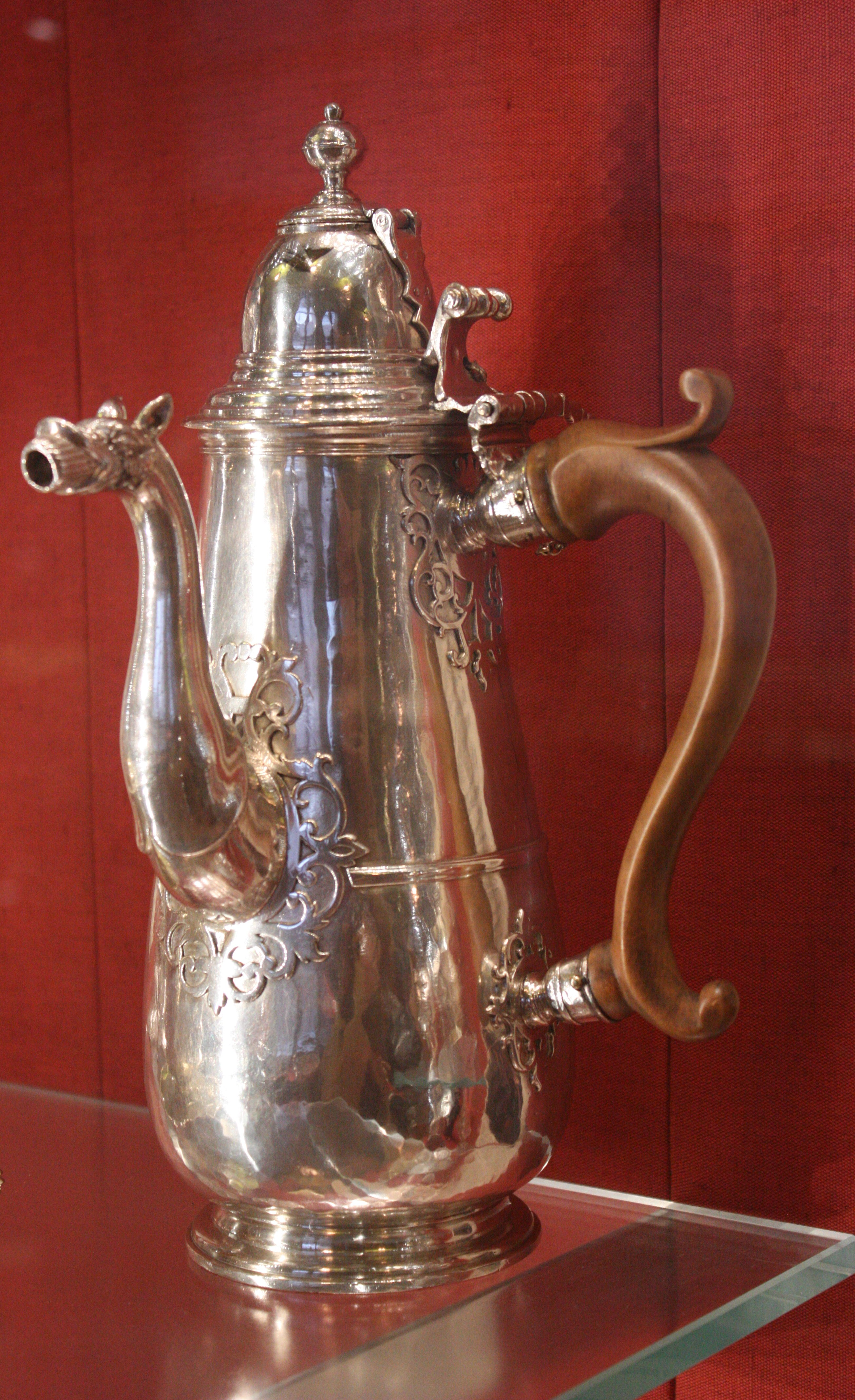 Chocolate Pot London 1714-15 Mark of John Fawdery I With hinged finial to insert a molinet or swizzle stick to stir the thick chocolate. With delicate pierced sheet or cutcard work. Everard Fawkener, a diplomat, spent nearly �2,000 on a dinner service in 1735, including a chocolate pot for �20 18s. The handle is replaced. Thomas Hugh Cobb Bequest Collection ID: M.1819-1944 This photo was taken as part of Britain Loves Wikipedia in February 2010 by Valerie McGlinchey.